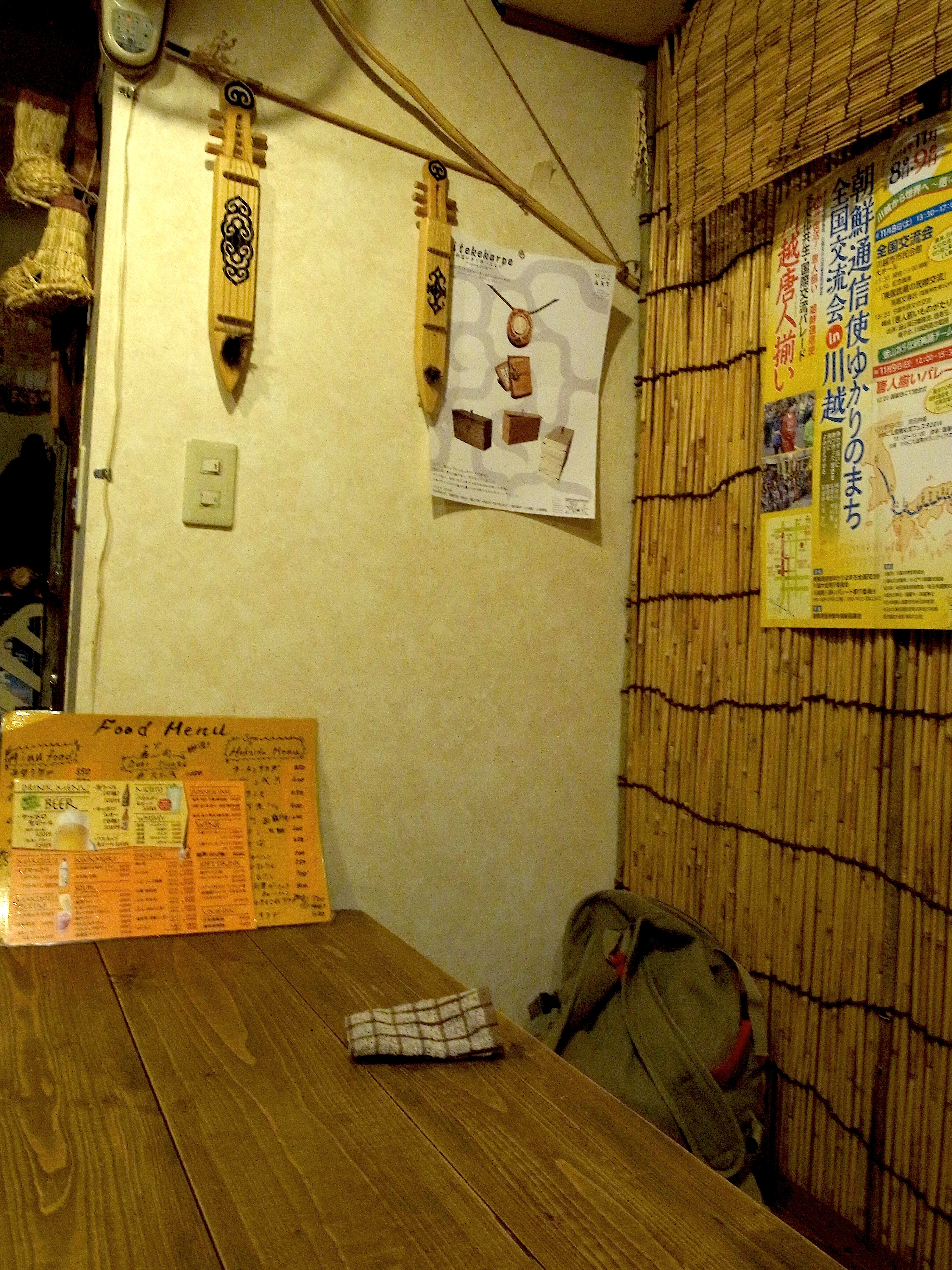 Ainu/Hokkaido cuisine restaurant in Tokyo Harukor (ハルコロ). Inside shop photo